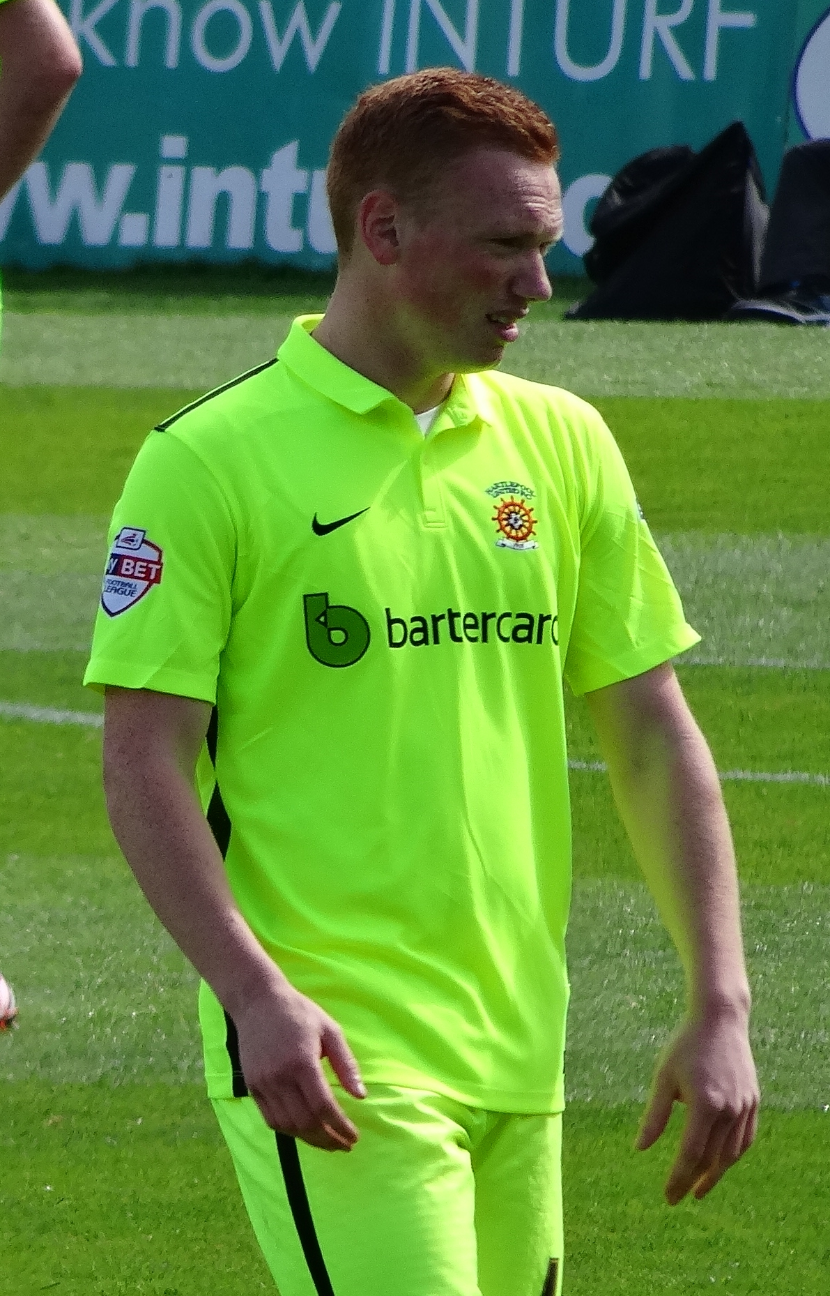 Michael Woods playing for Hartlepool United against York City at Bootham Crescent, York on 15 August 2015